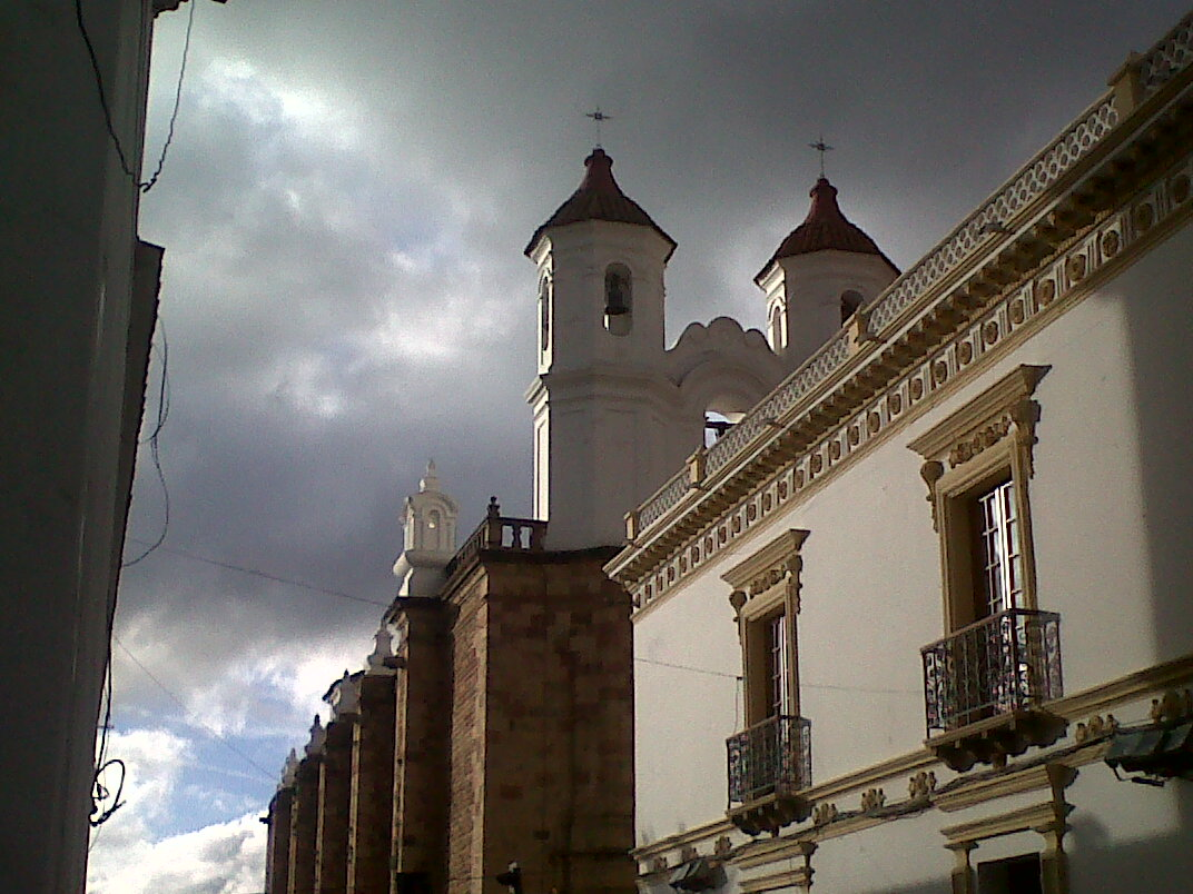 This is a picture, taken from Azurduy street in front of Convento de San Felipe de Neri in Sucre, Bolivia.